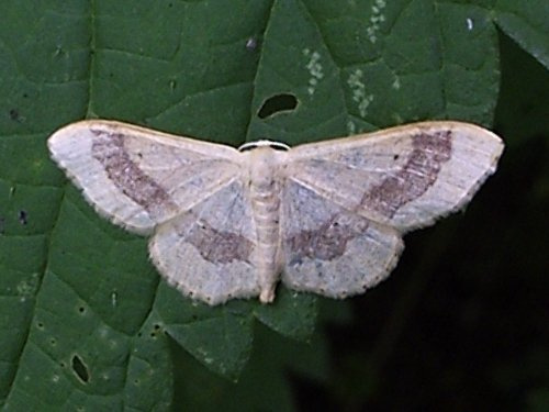 Idaea aversata (Riband Wave), sitting on a nettle leaf. Place: Yaroslavl, Russia. Date: 2005-07-03. The uncropped and unrotated version of this image is here: Image:Idaea aversata 001.jpg